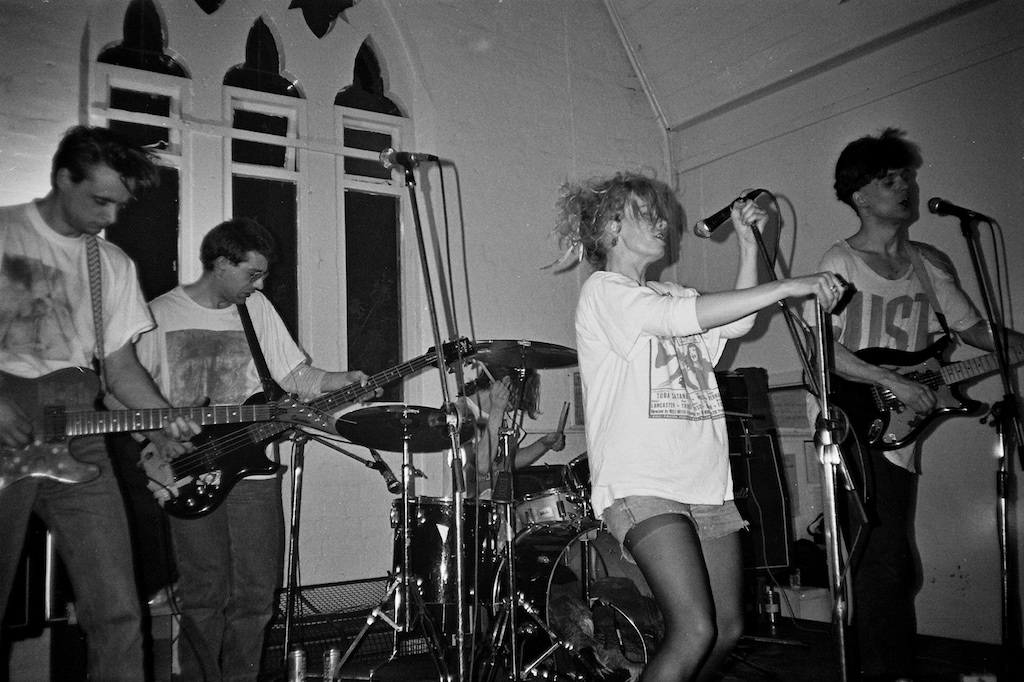 (...) AC Temple 'live' in Leamington Spa: goo.gl/d53gqt